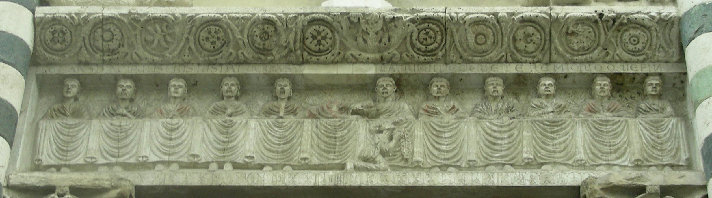 Pistoia, church of St.Giovanni Fuoricivitas, north side, the main door, sculptured architrave(12th century)